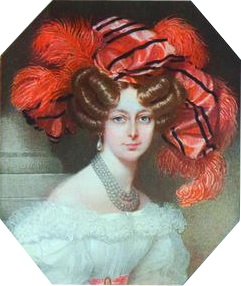 Countess Sidonie Potocka de Ligne (1786-1828)